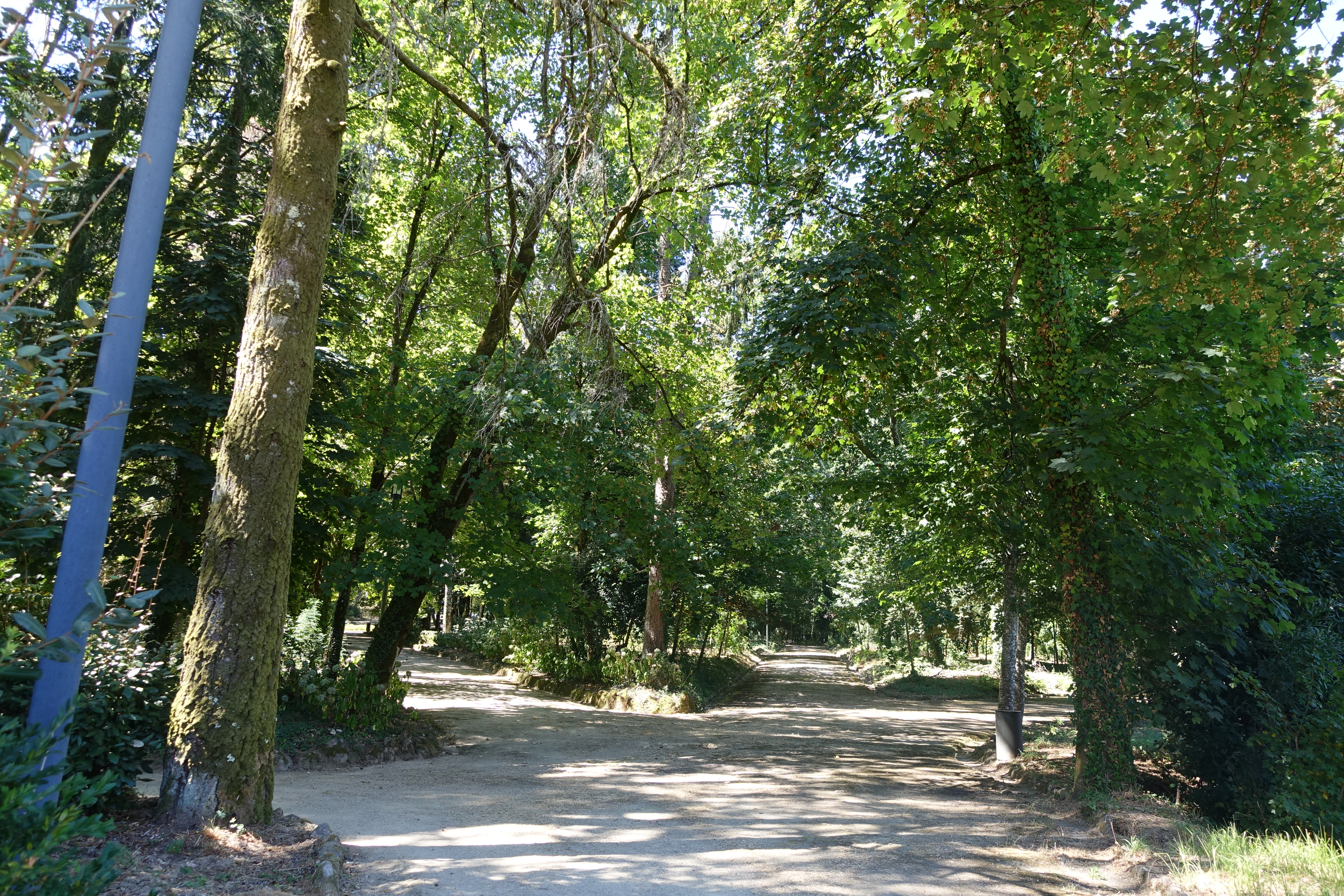 Termas de Melgaço, Portugal.